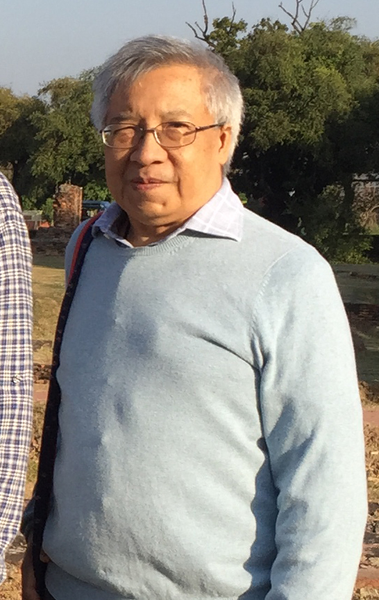 The historian Dhiravat na Pombejra photographed in the Ayutthaya Grand Palace on 20 December 2017